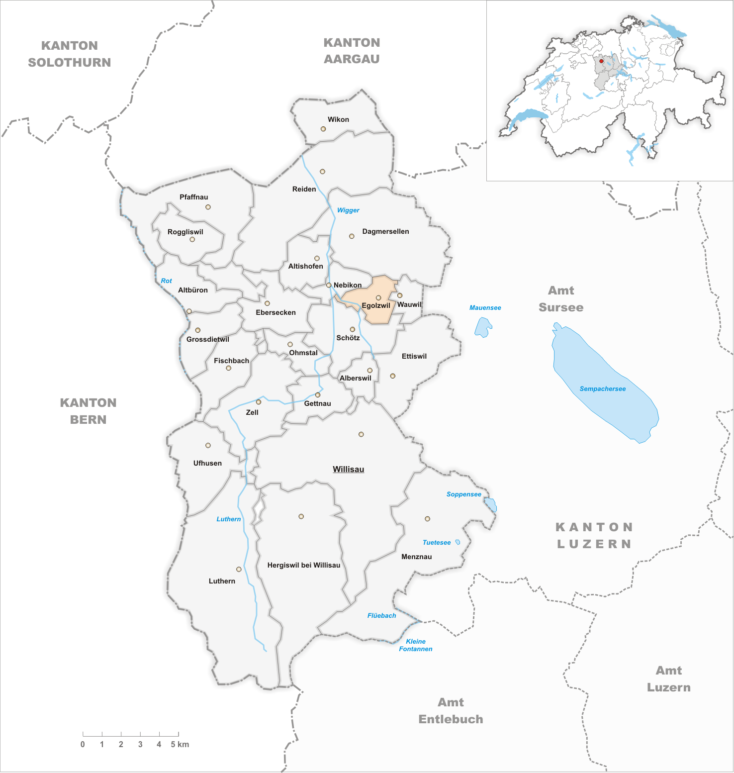 Municipality Egolzwil